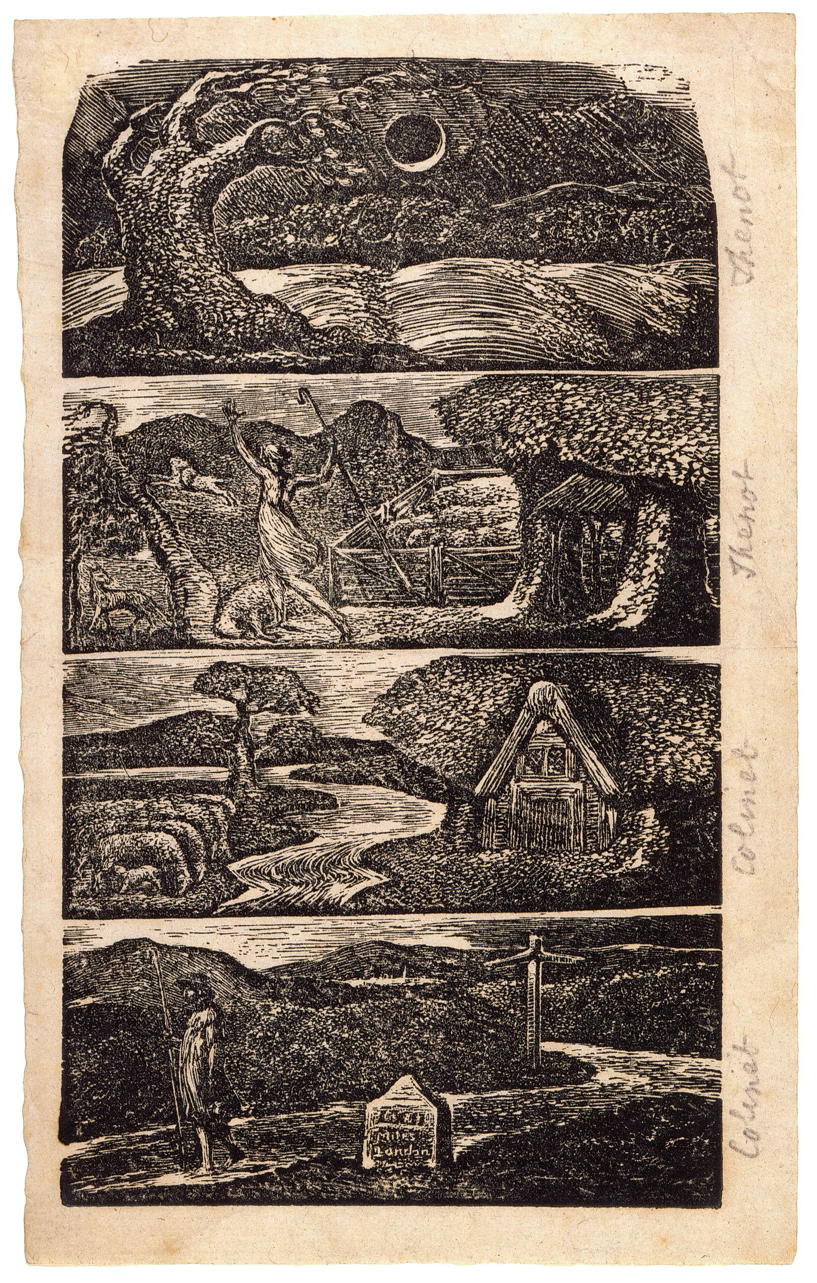 Four wood engravings printed from one block for The Pastorals of Virgil, adapted by Robert John Thornton.